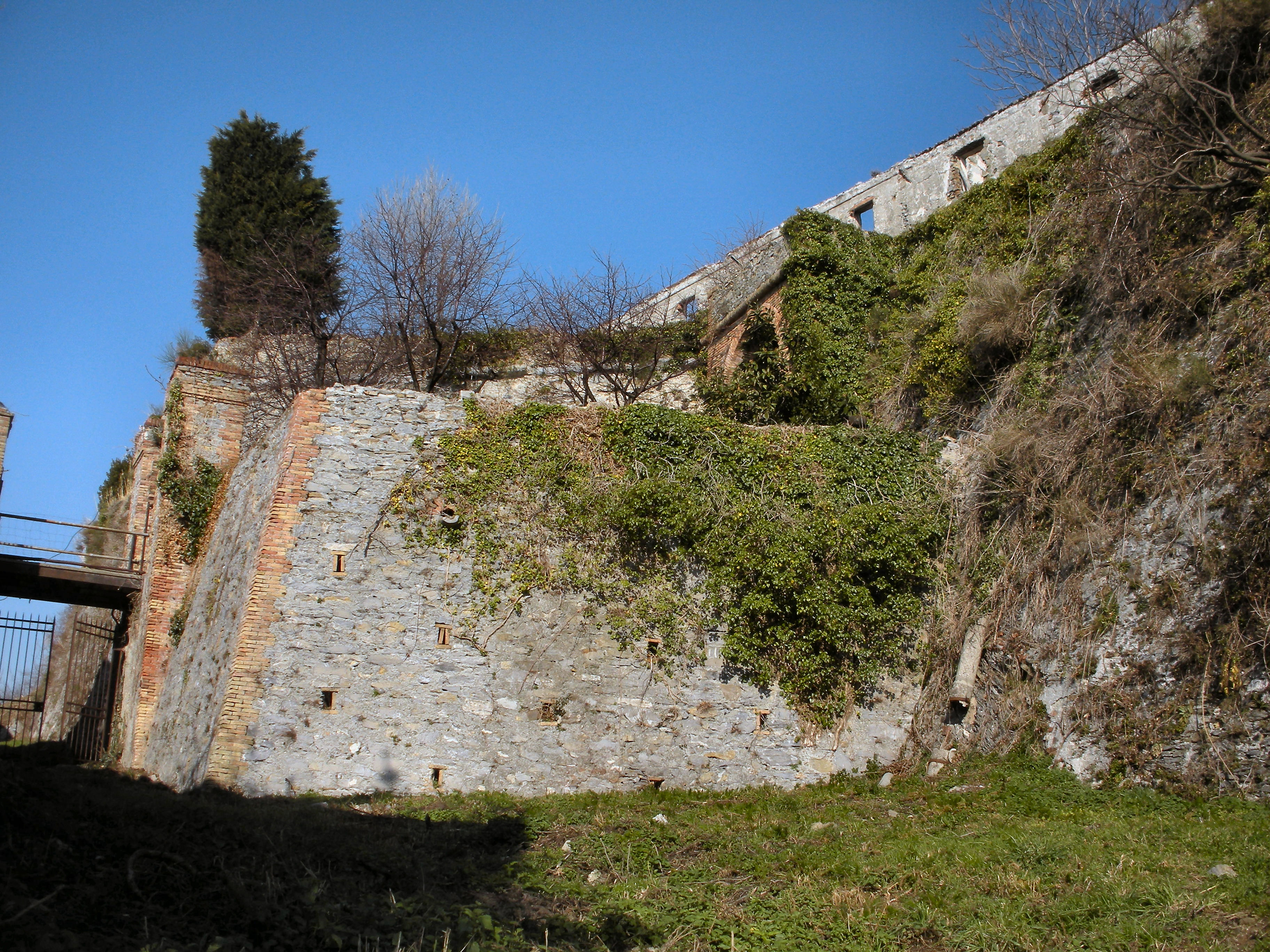 Genoa, Italy, Fort Tenaglia